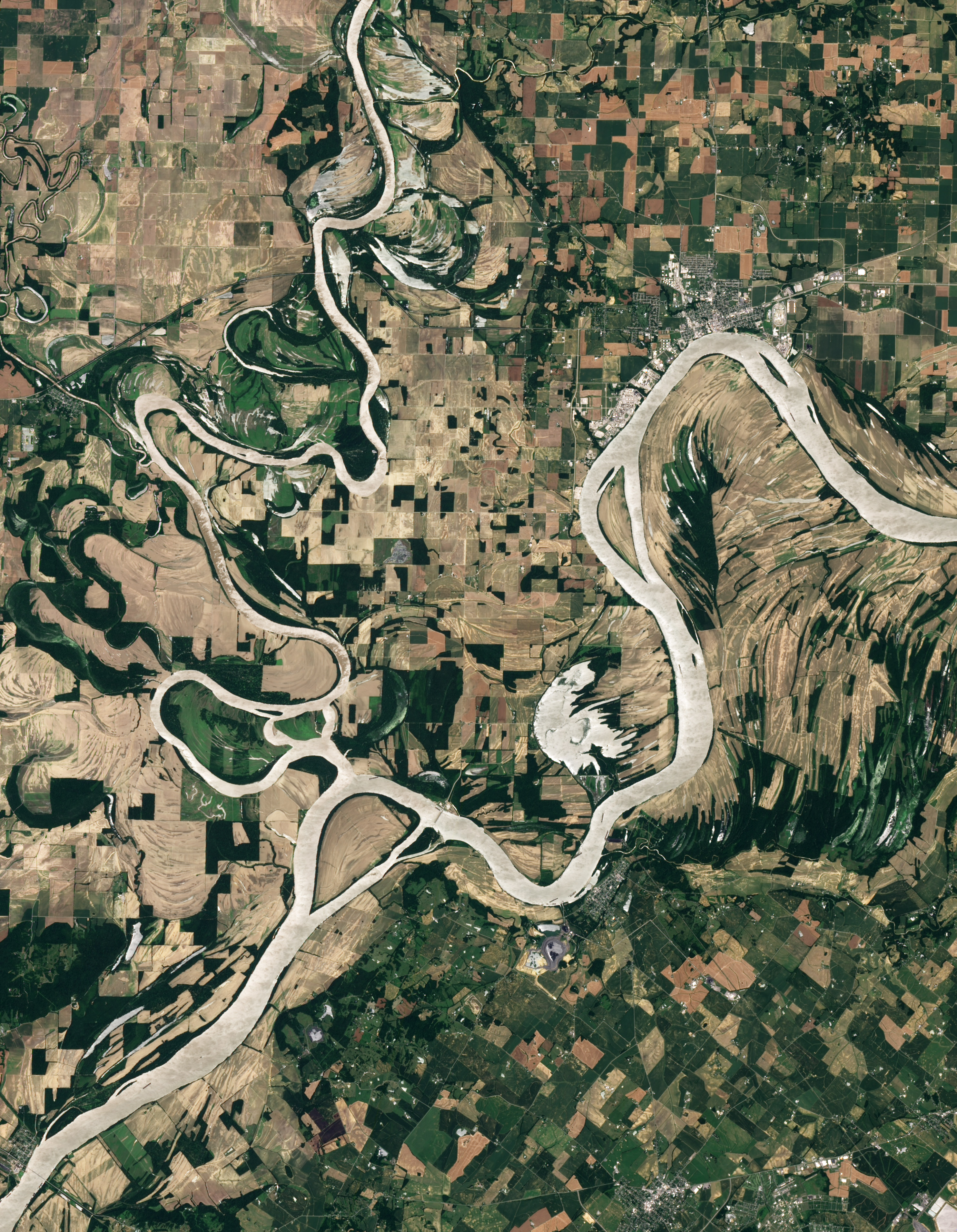 Natural-colour image of the Wabash-Ohio confluence. Both rivers, as well as Hovey Lake, appear silver-grey in this image, probably due to the reflection of sunlight off the water surface (sunglint). Away from the water, the land is a patchwork of croplands shaped by human design, and floodplains shaped by overflowing rivers.